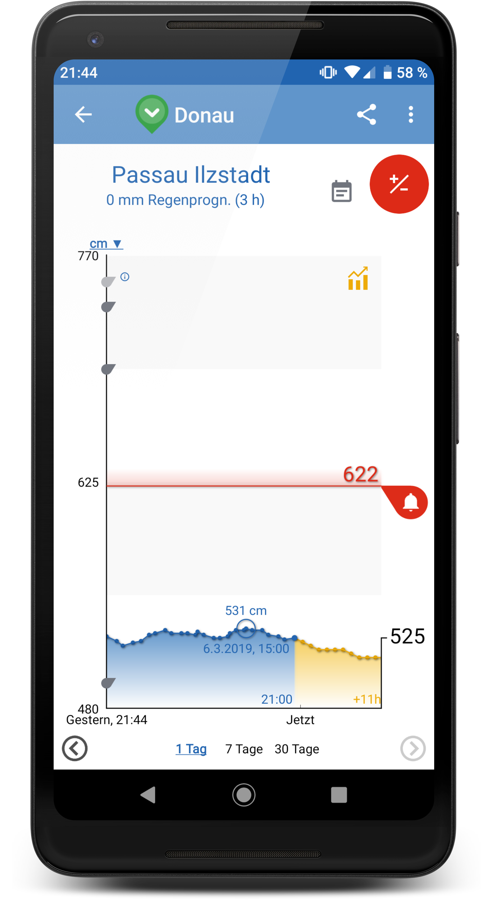 This image shows a screenshot of the software system PegelAlarm. It displays a screen with the historic water level of the Danube river.